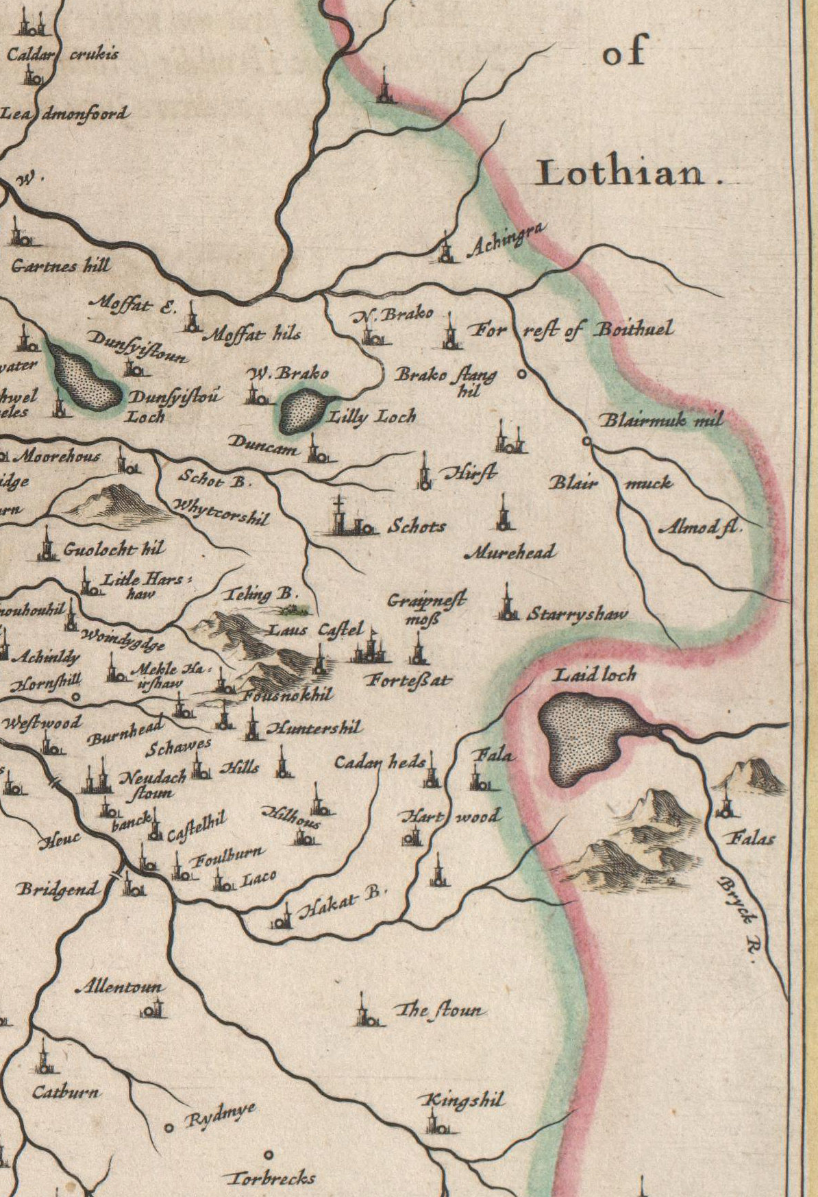 Area around Shotts by Blaeu based on Pont